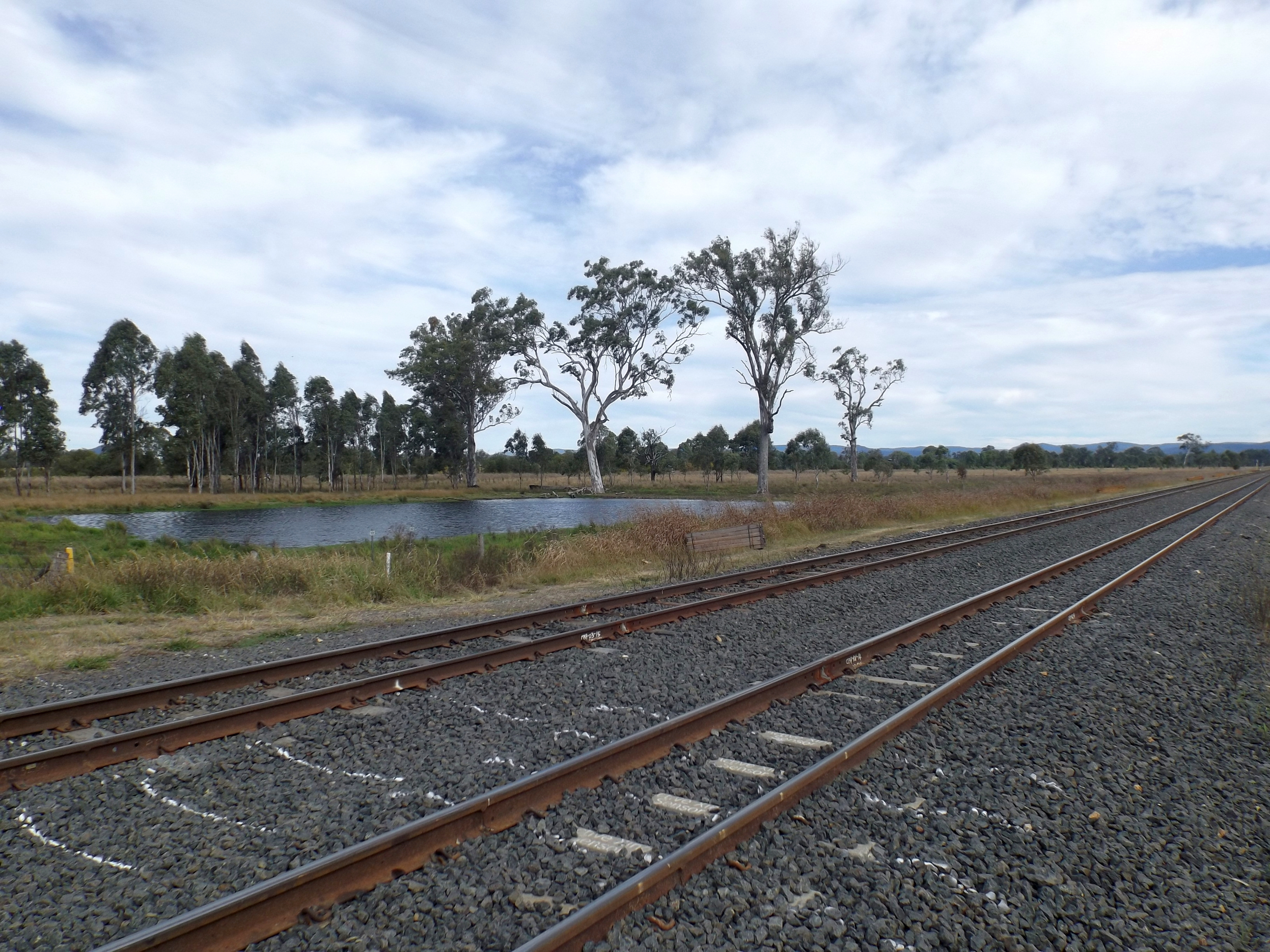 Photo of Main Line railway at Lane Road crossing in Lanefield, Ipswich, Queensland, Australia.